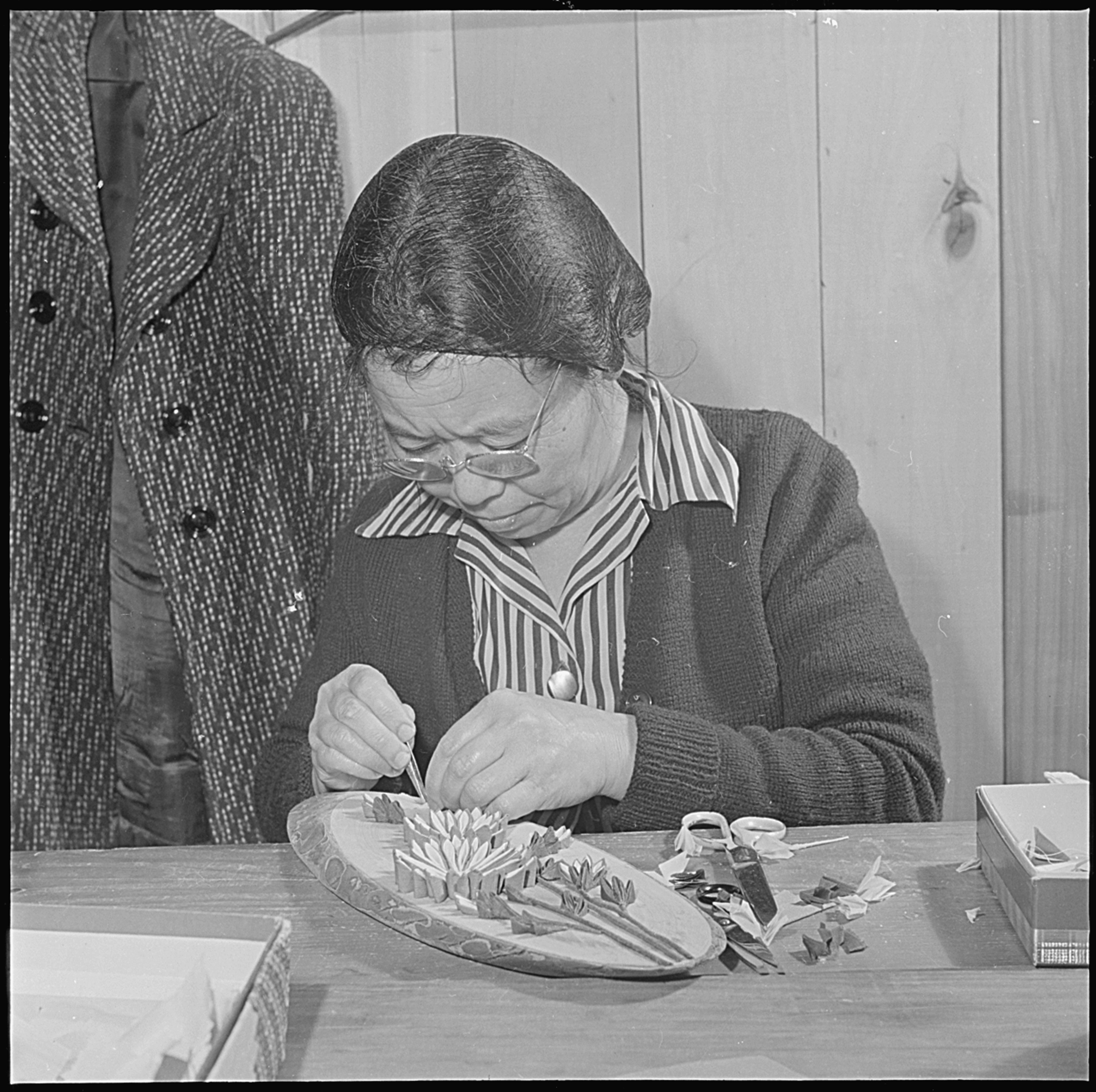 Scope and content: The full caption for this photograph reads: Jerome Relocation Center, Denson, Arkansas. An adult education class at the Jerome Center, where a housewife prepares a wall plaque of artificial flowers, made from tissue paper. Afternoon and evening classes of home decorative arts are very popular among center residents, former west coast persons of Japanese ancestry, who attempt to soften the barren walls of their barracks homes with art objects of their own handiwork.